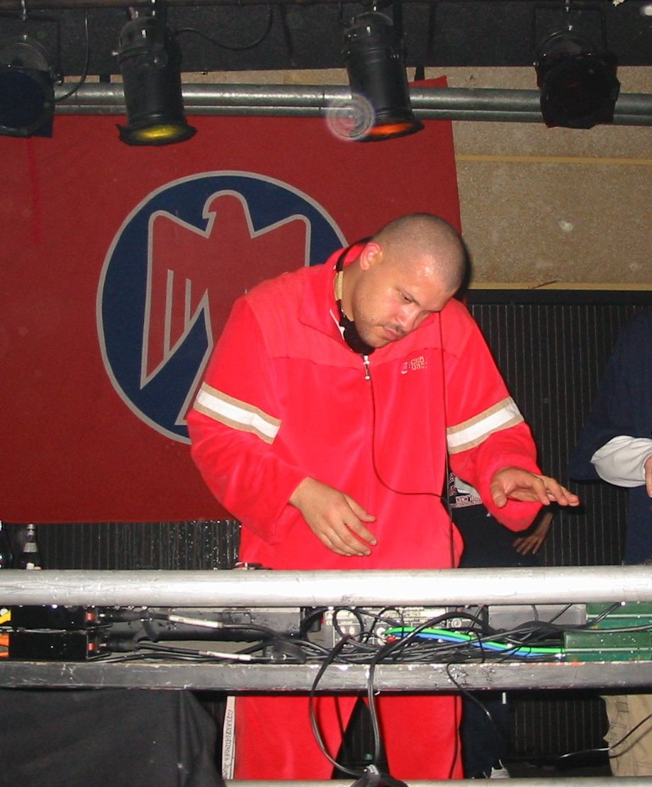 Torch aka Haitian Star at work.